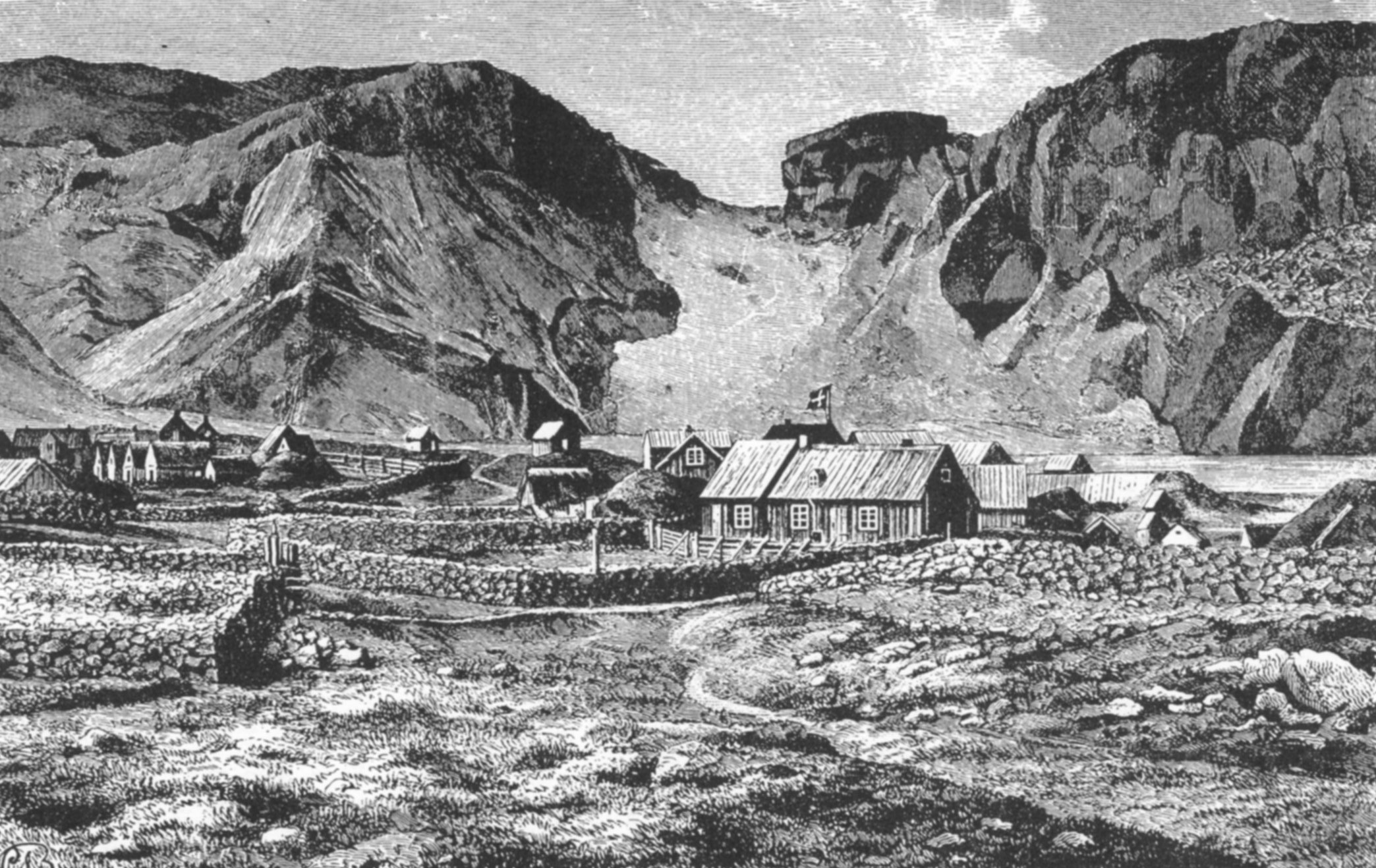 Illustration from the article Handelspladsen paa Heimaey blandt Vestmanøerne, by Carl Andersen, in the Danish illustrated newspaper Illustreret Tidende from March 16, 1879.